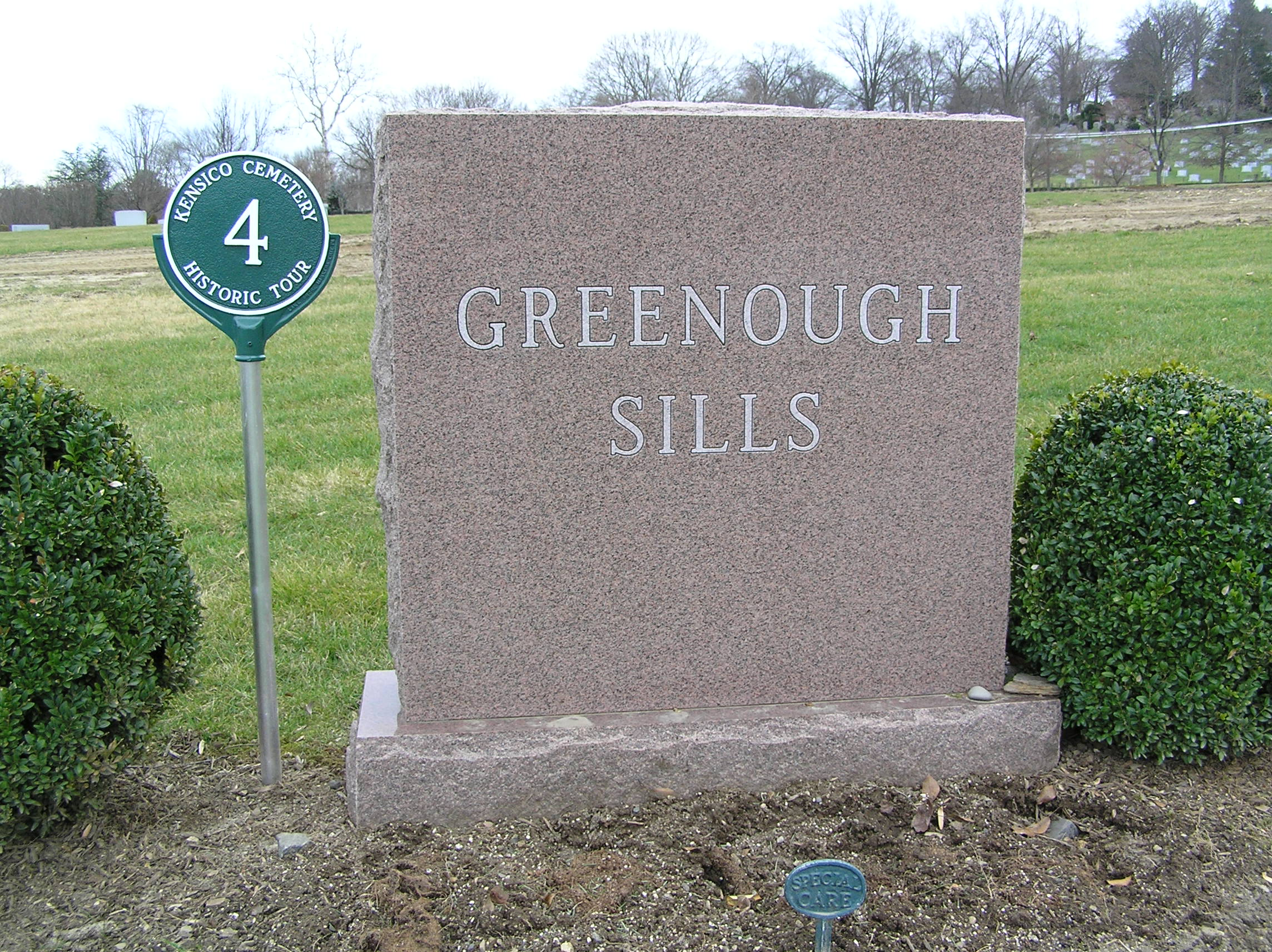 The headstone of Beverly Sills in the Sharon Gardens Division of Kensico Cemetery